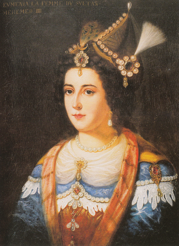 Portrait painting of Rabia Gülnuş Sultan, 19th century, by an unknown artist; Topkapı Sarayı Müzesi Portreler Koleksiyonu, 17/44